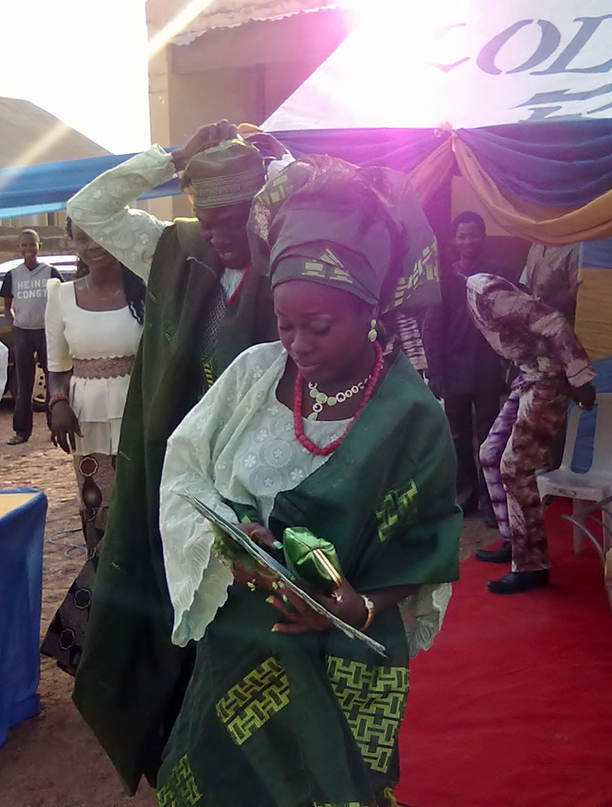 This is an image of Cultural Fashion or Adornment from Nigeria